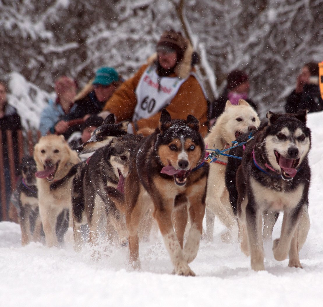 One of the absolute bestest things about living in Alaska is the chance to watch the Iditarod - what a blast, even if it is only the ceremonial start. I staked out a good spot along the trail, dug a deep snow pit - we've had an incredible amount of snow this year, and just laid back and watched the mushers fly by. At the ceremonial start each musher has a guest rider in front - they obviously don't have them during the real Iditarod. I took these photos on 3 March 2012 during a heavy snow on a lovely day in Anchorage.